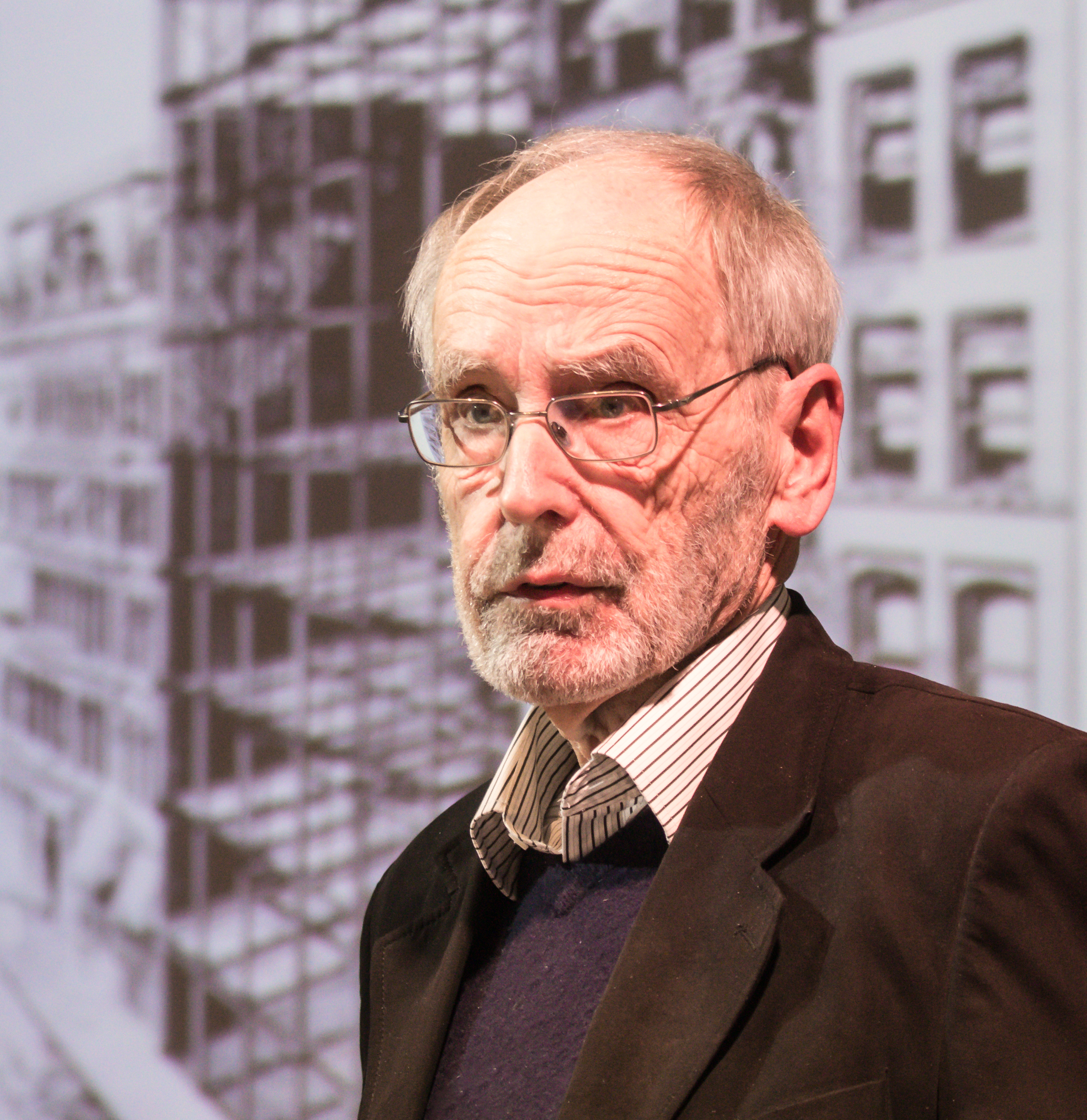 Wolfgang Pehnt, Architekturhistoriker und Architekturkritiker, beim Vortrag „Turmbau – Als die Hochhäuser nach Deutschland kamen“ im Rahmen der Themenreihe 'Türme in der Stadt' des Architekturforums Rheinland e.V. im Domforum Köln